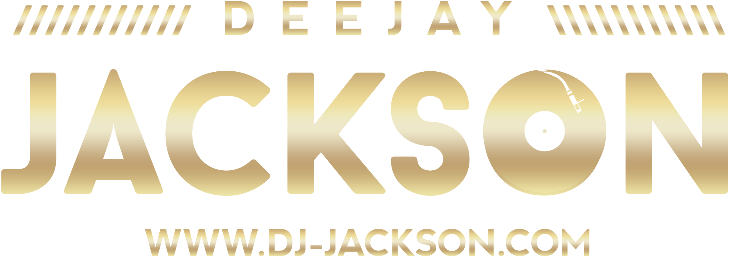 DJ Jacksons Logo